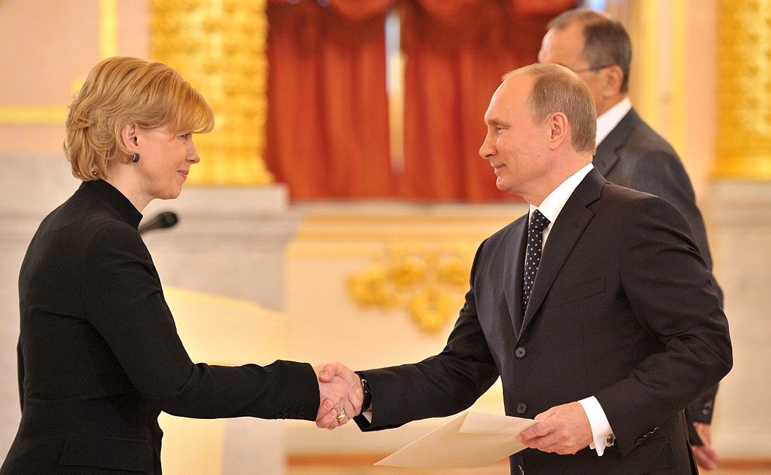 THE KREMLIN, MOSCOW. Presentation ceremony of foreign ambassadors’ letters of credentials. Ambassador of the Republic of Greece Danai Magdalini Kumanaku presents his letter of credentials to the President.